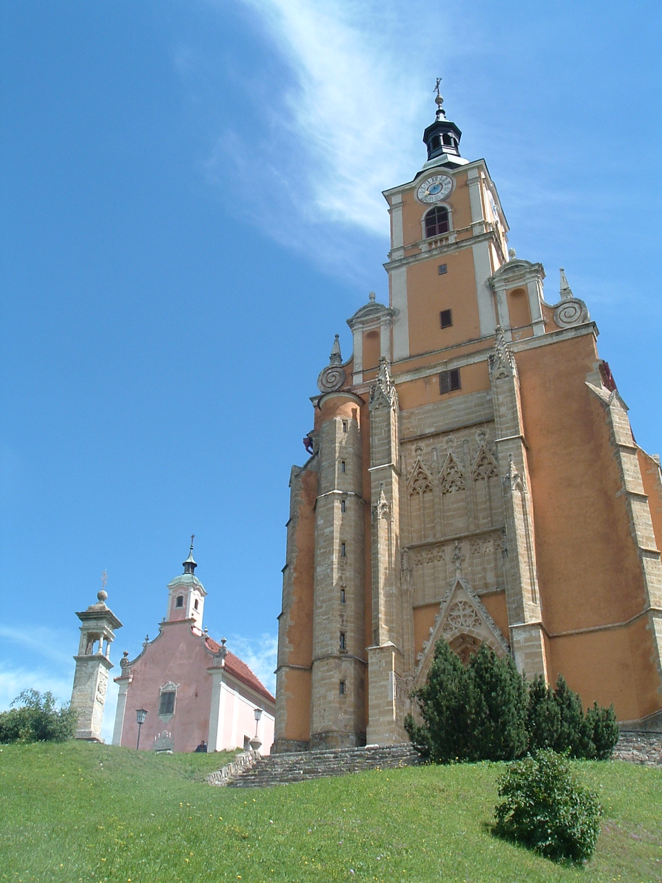 Pöllauberg, church